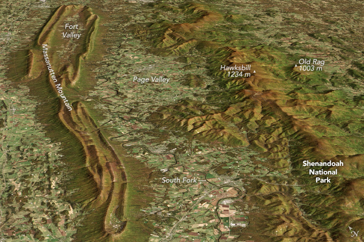 Image displaying the topographical differences between two roughly parallel ridges along Virginia's western border: one is the backbone of Shenandoah National Park, and the other is part of George Washington National Forest, both rise above the Shenandoah Valley's rolling lowlands.